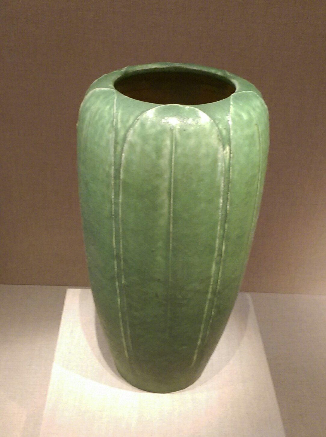 A vase made by Wilhelmina Post of the Grueby Faience Company, approximately 1910, on display at the de Young Museum in San Francisco.. Photo by Jim Heaphy.